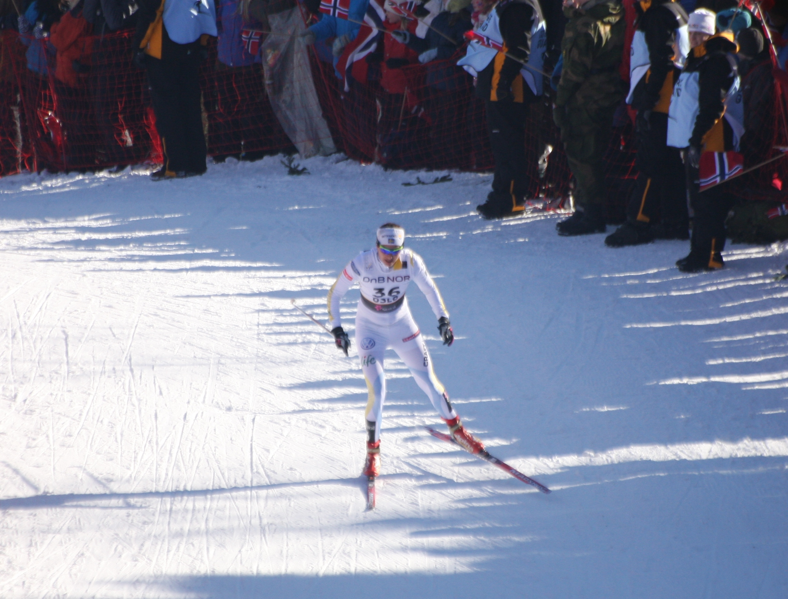 Sara Lindborg, Sweden, at 17 km in the 30 km cross country, Ski World Championship Oslo 2011